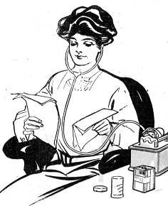 Listening to phonograph cylinder via rubber ear-tubes